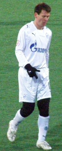 Konstantin Zyryanov in action for FC Zenit St.Petersburg